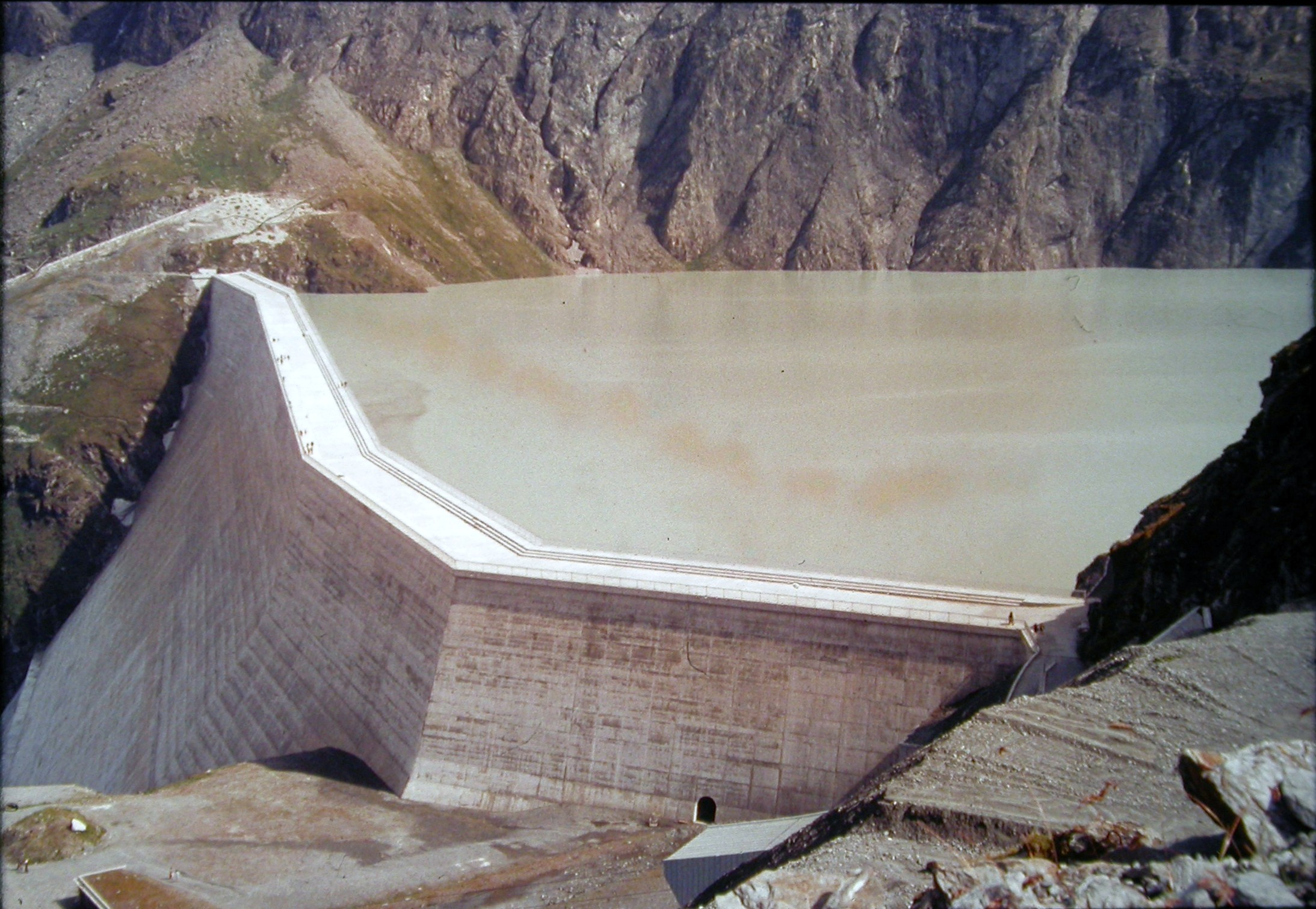 A day at Dixence 1966